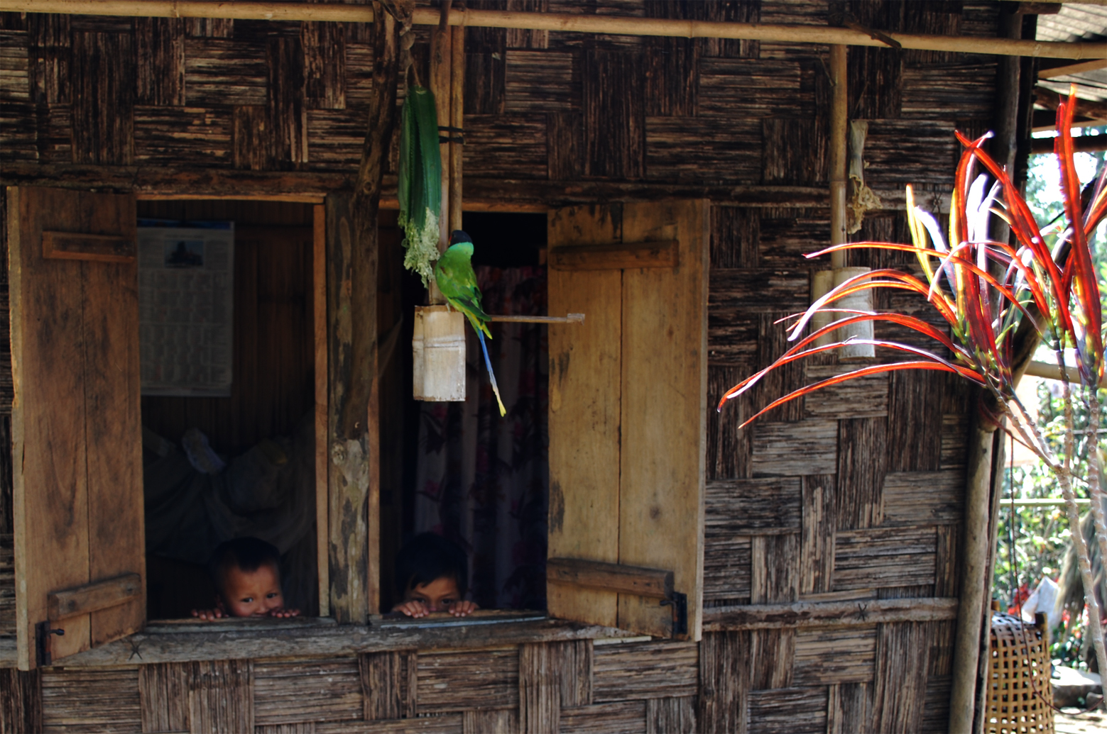 Kids at a house in Maulynnong, East Khasi Hills, Meghalaya. Sold as the cleanest village in India. Also in the picture is a "slaty headed parakeet" commonly seen on these perches outside houses there.